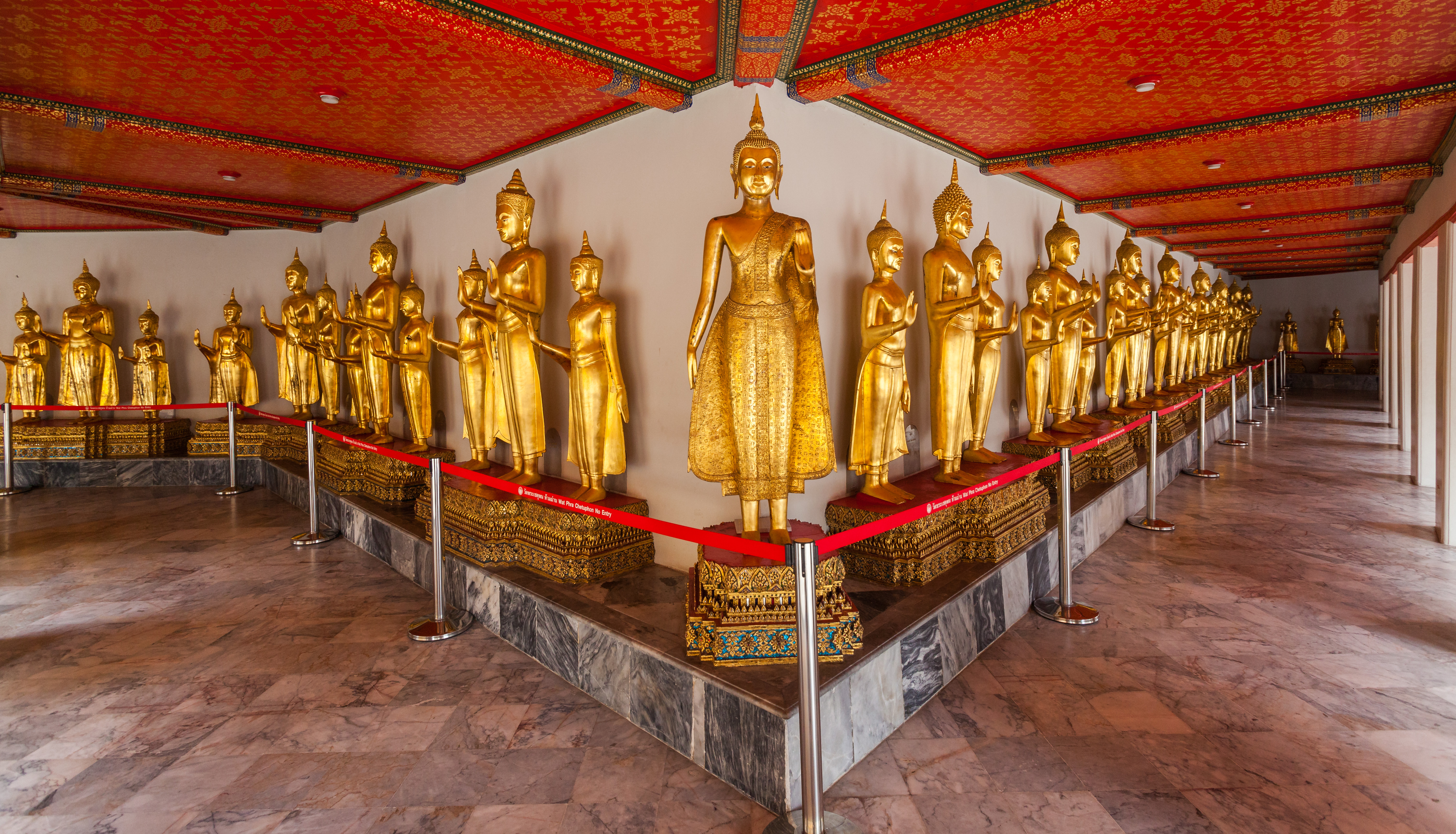 Wat Pho temple, Bangkok, Thailand